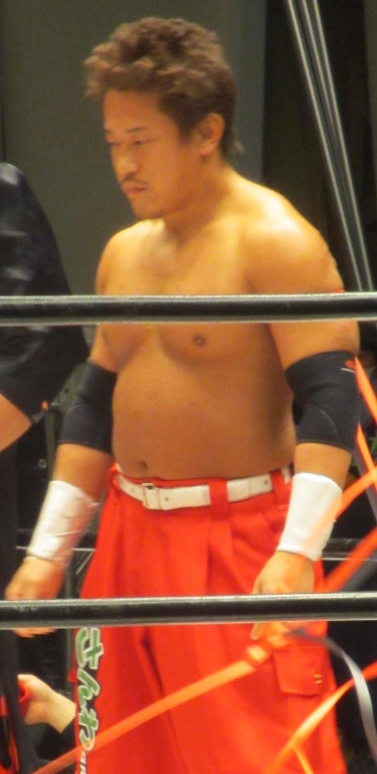 Japanese professional wrestler,Yūkō Miyamoto. Dec 30 2015 BJW Korakuen Hall.